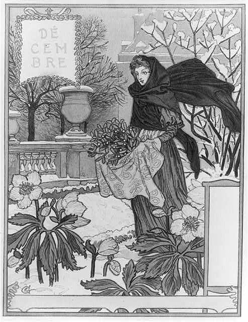 "Décembre" ("December"). Color wood engraving by Eugène Grasset (1845-1917)